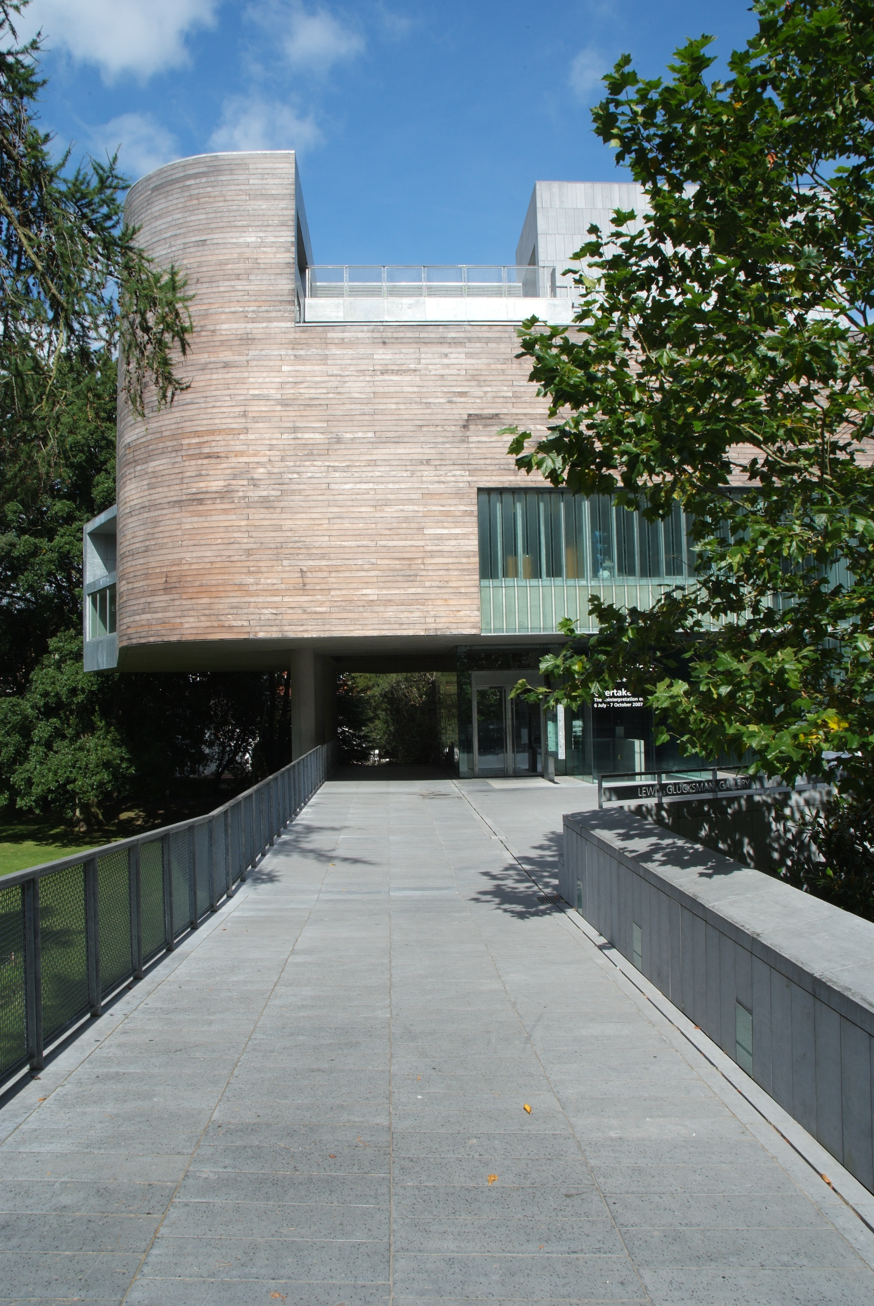 Entrance to Lewis Glucksman Gallery